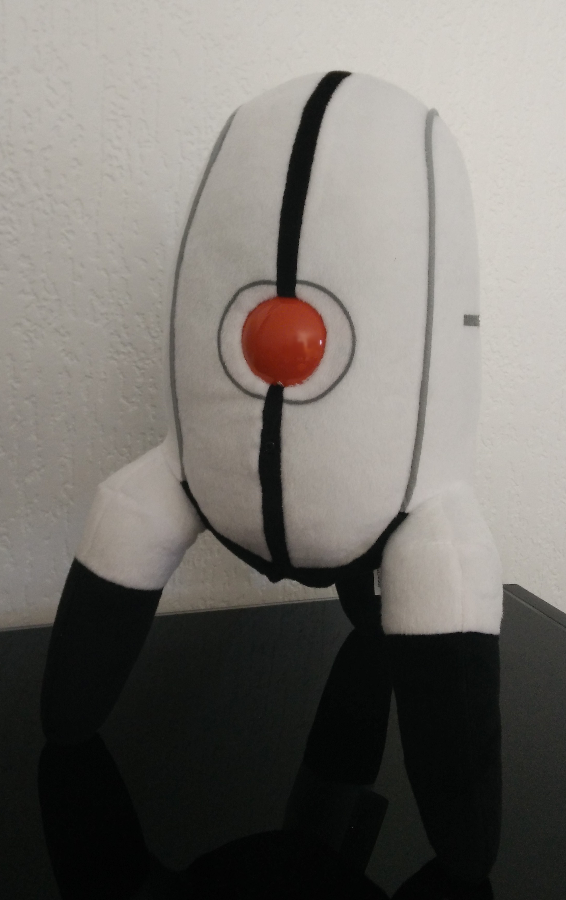 Plush of a turret licensed Portal